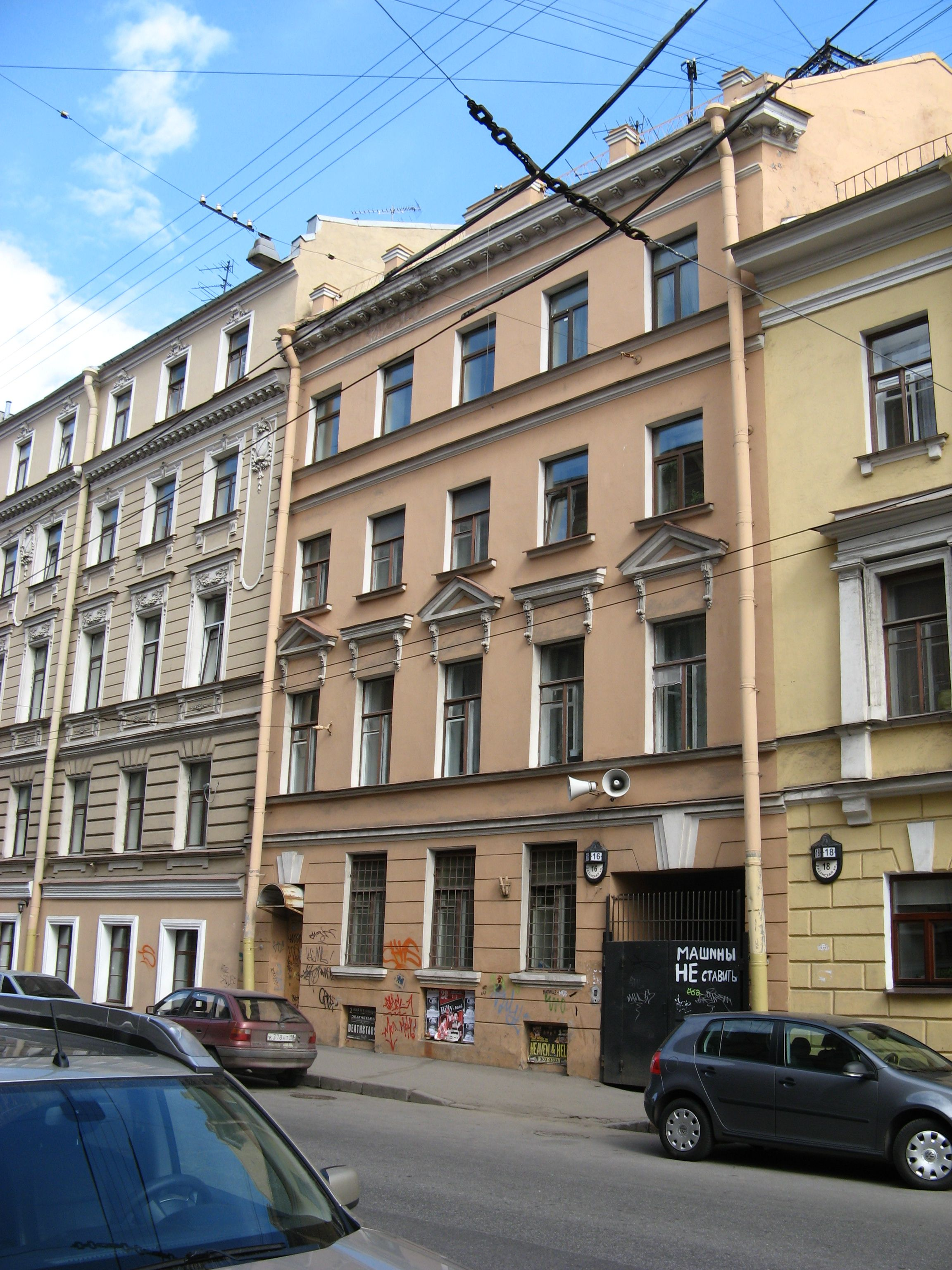 Kazanskaj street, 16 (Saint-Petersburg)